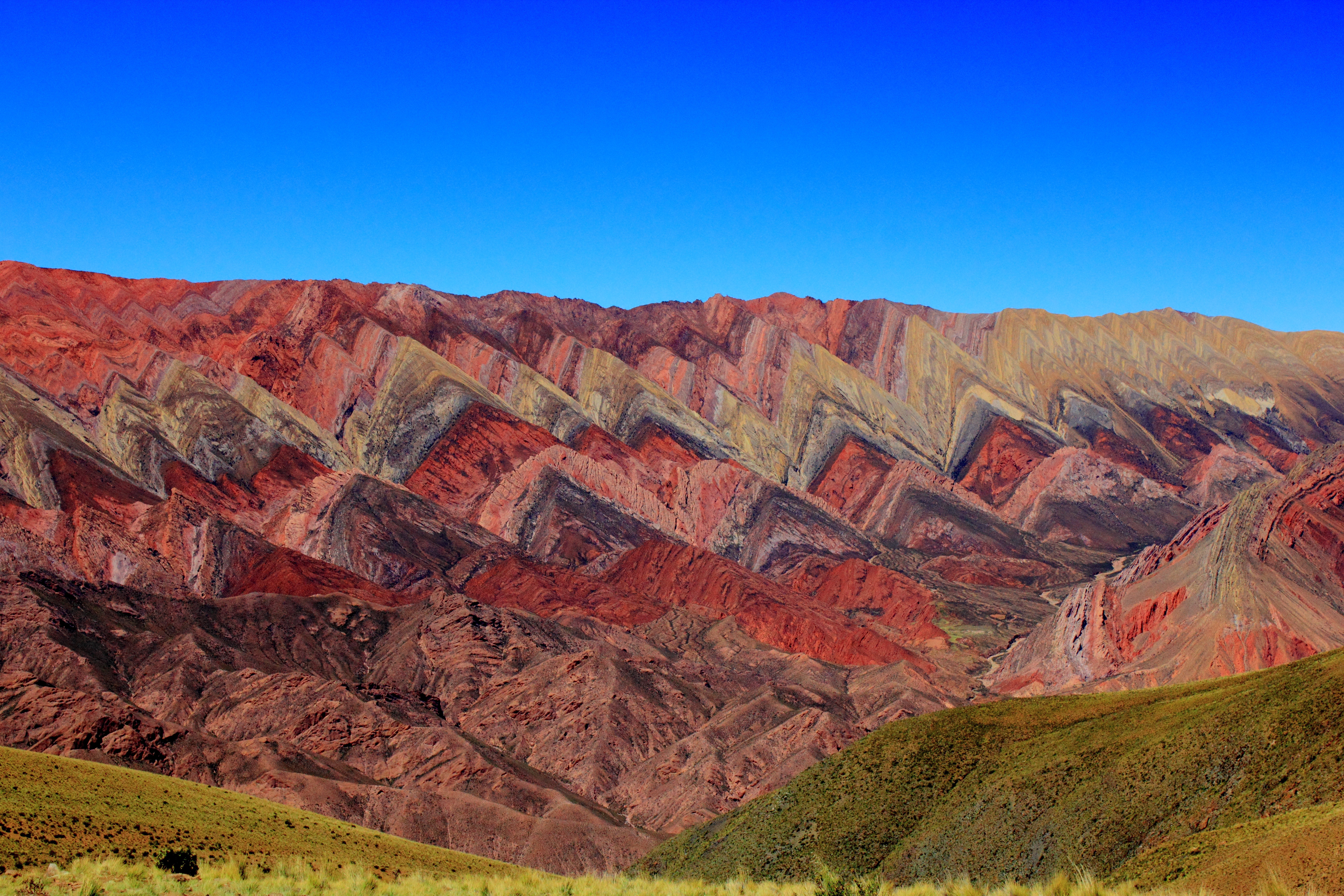 The Serranía de Hornocal are a range of mountains located near the city of Humahuaca, province of Jujuy, Argentina. It is a limestone formation with various minerals which had given, after tectonic activity and erosive process, multicolored triangular formations.